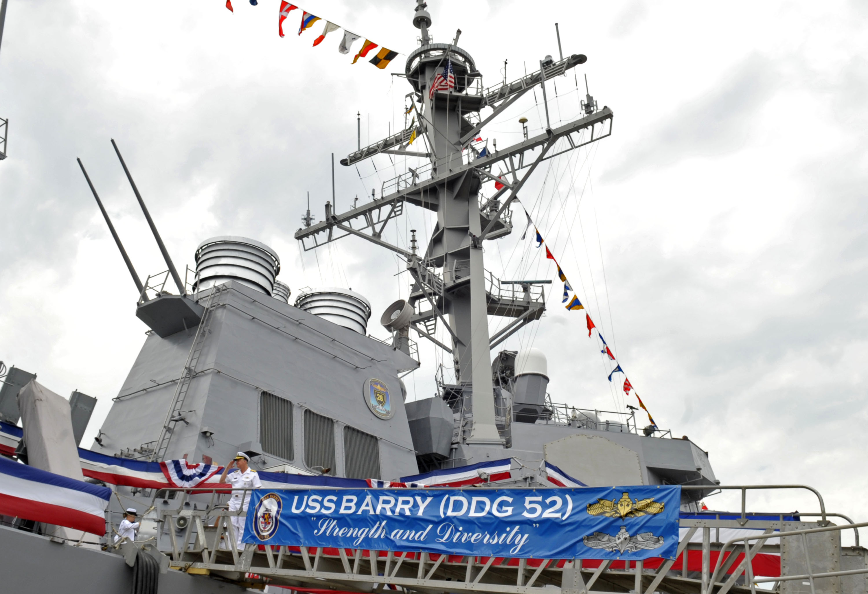 NORFOLK (July 24, 2009) Chief of Naval Operations (CNO) Adm. Gary Roughead departs the guided-missile destroyer USS Barry (DDG 52) after visiting the commanding officer and crew. Roughead was the first commanding officer of Barry when the ship was commissioned in 1992. (U.S. Navy photo by Mass Communication Specialist 1st Class Tiffini Jones Vanderwyst/Released)